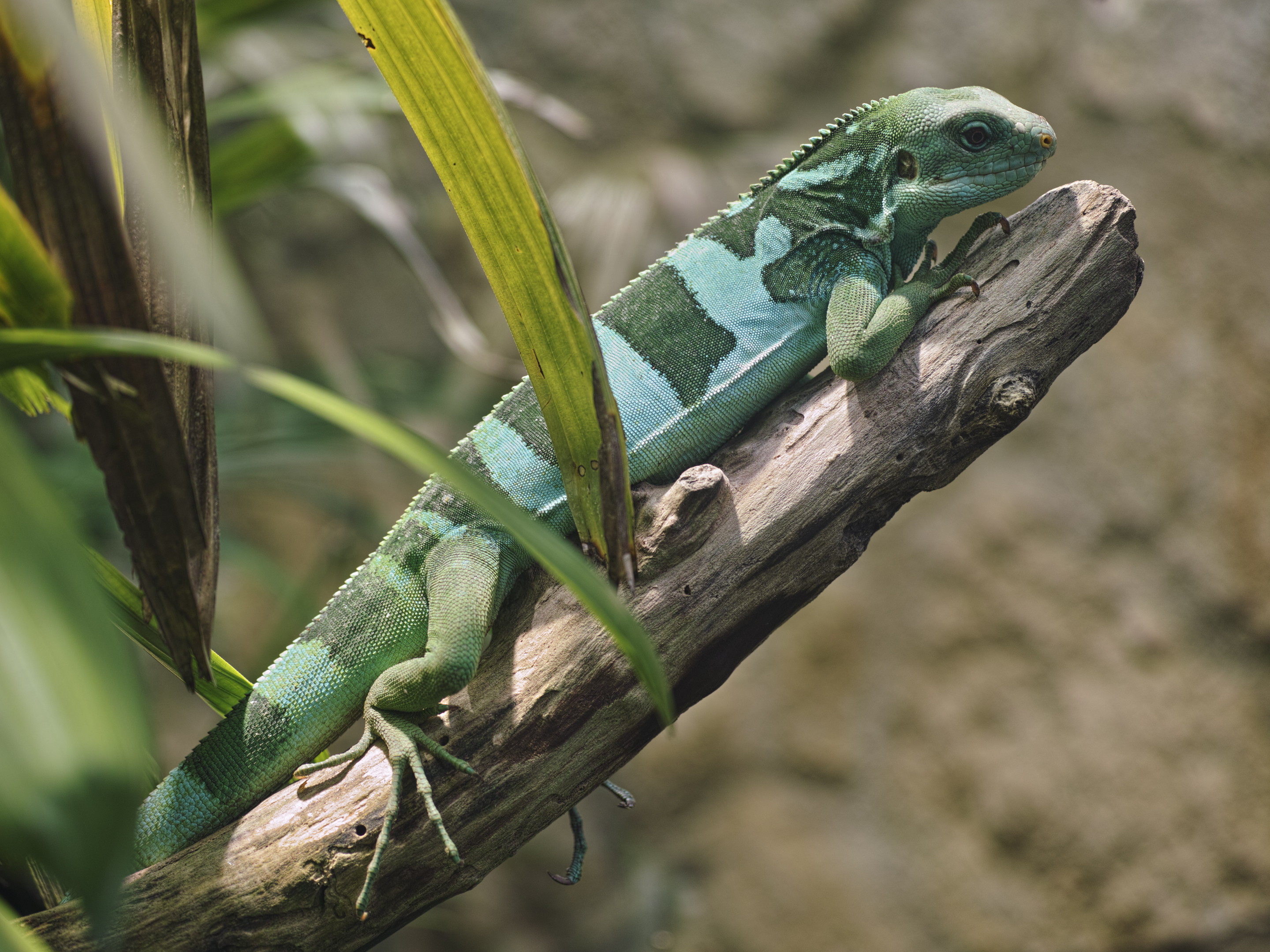 A Fiji banded iguana in the Vienna Zoo on May 12, 2013.